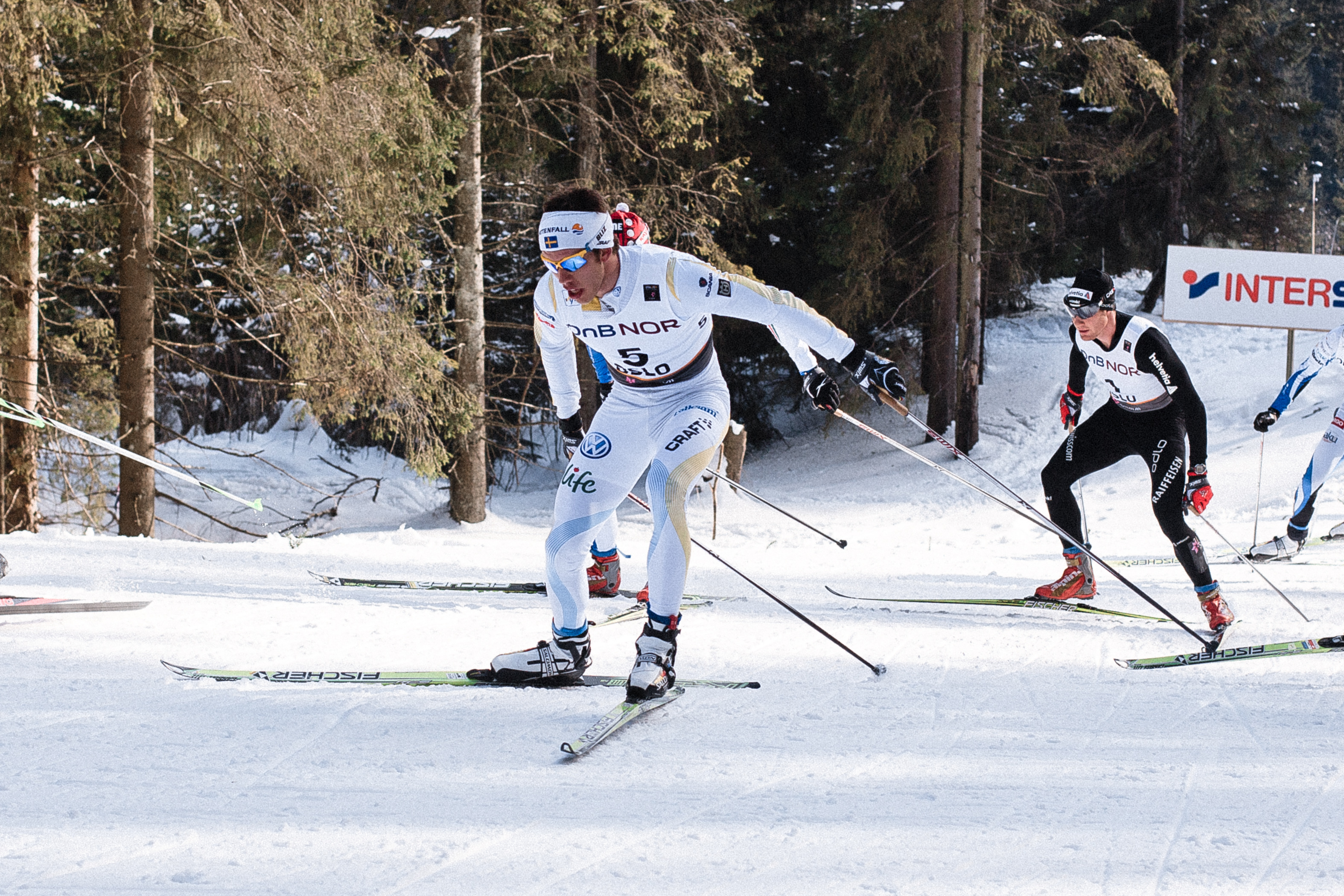 Marcus Hellner at the 50km masstart. FIS Nordic World Championships 2011/03/06. The skier in black is Dario Cologna.